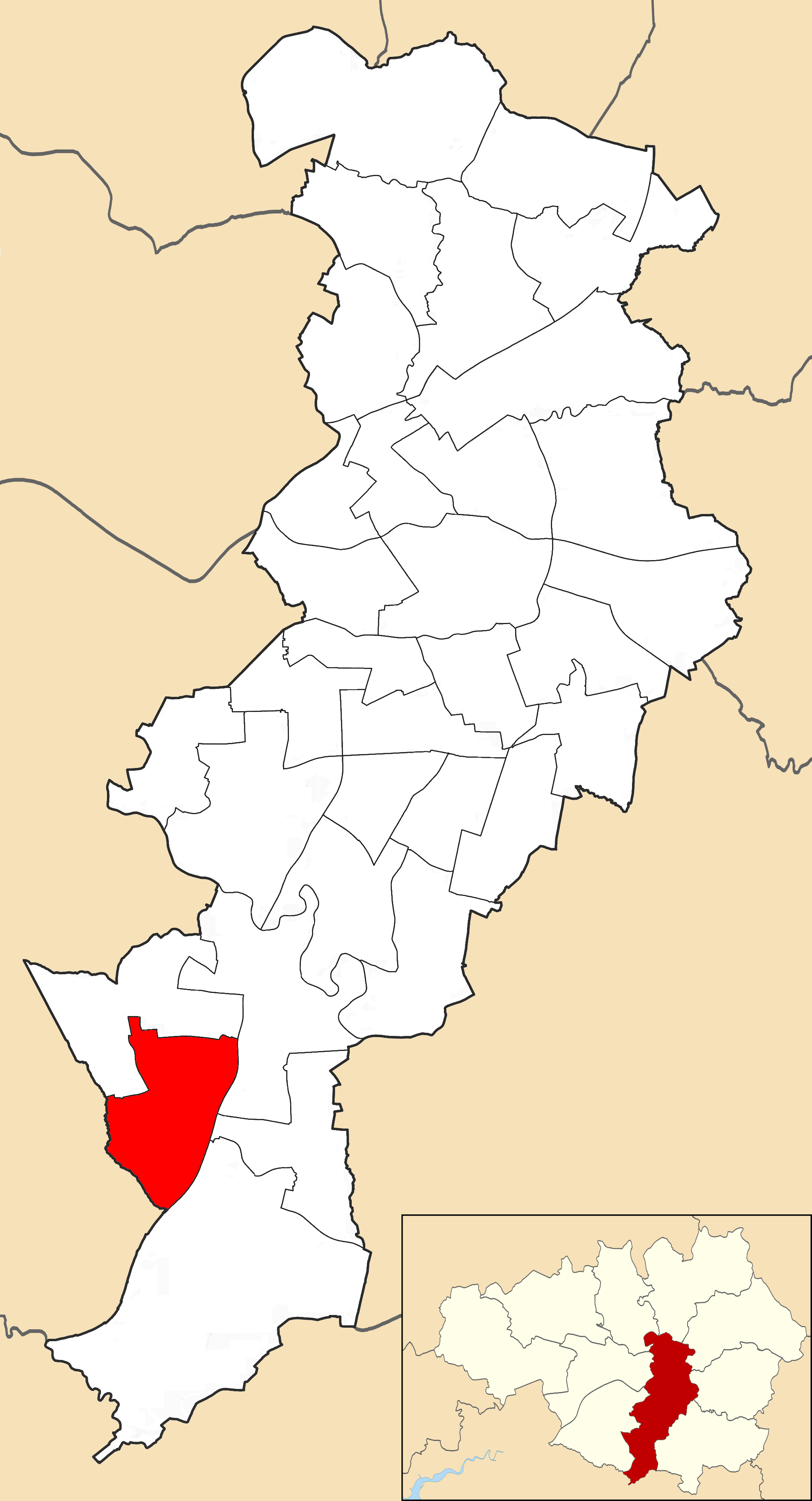 Map showing location of Baguley ward within Manchester City Council.